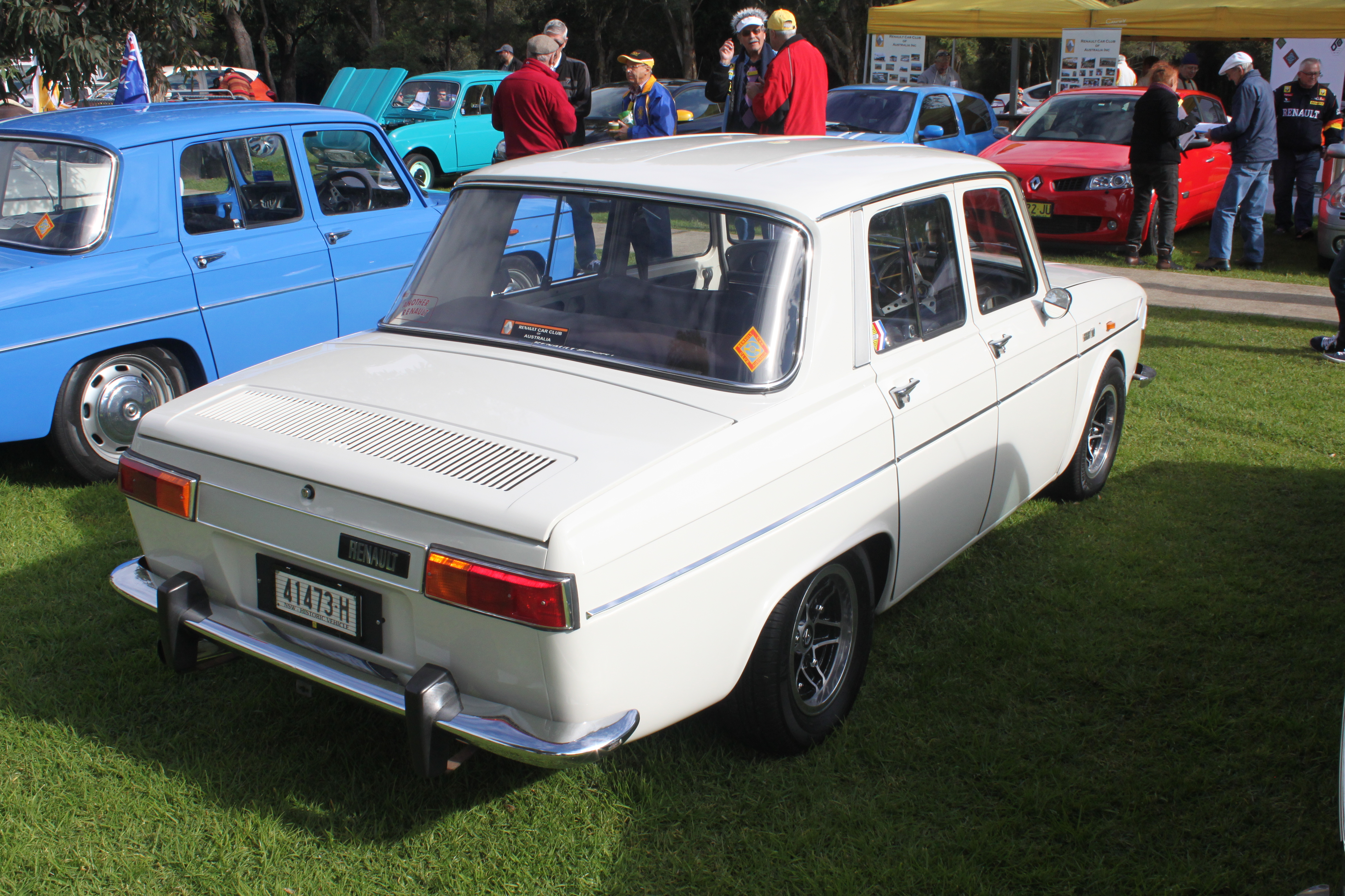 All French Day, Silverwater Park, NSW July 2015